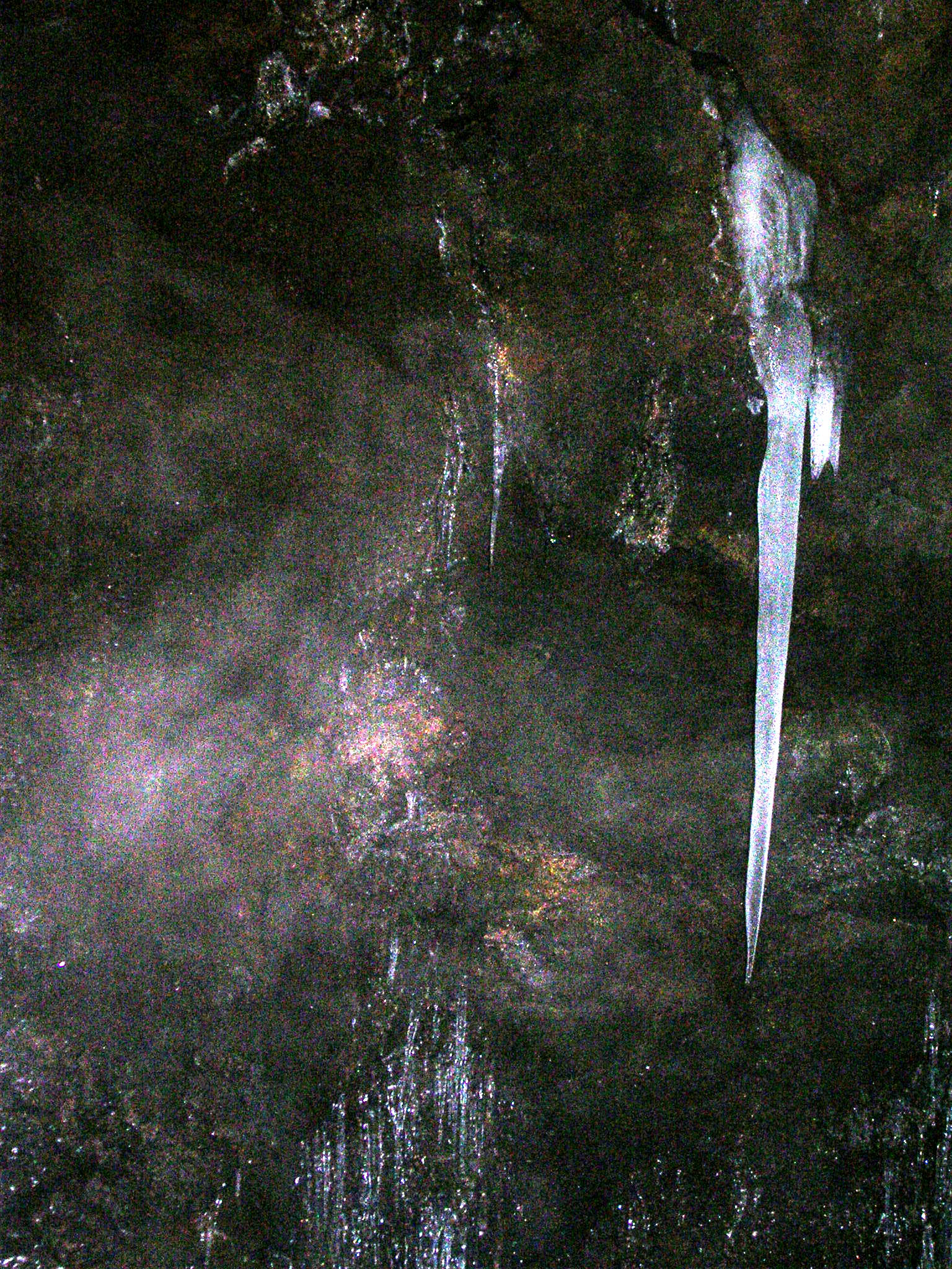 Inside the Grotta del Gelo, Etna, Sicily, Italy